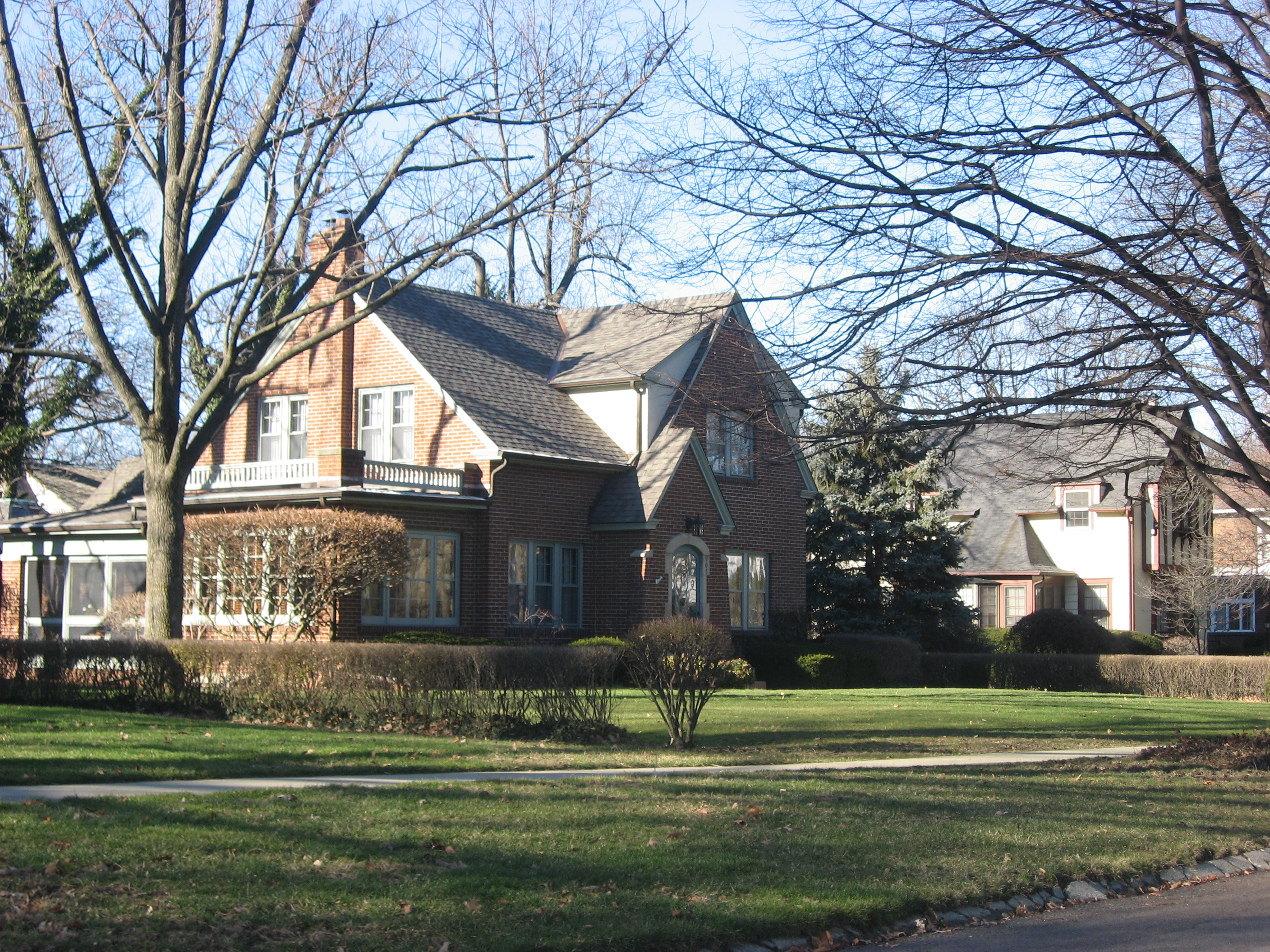 Houses on the western side of Meadow Lane immediately south of the Berwyn Road intersection in Muncie, Indiana, United States. They are a part of the Westwood Historic District, a historic district that is listed on the National Register of Historic Places.